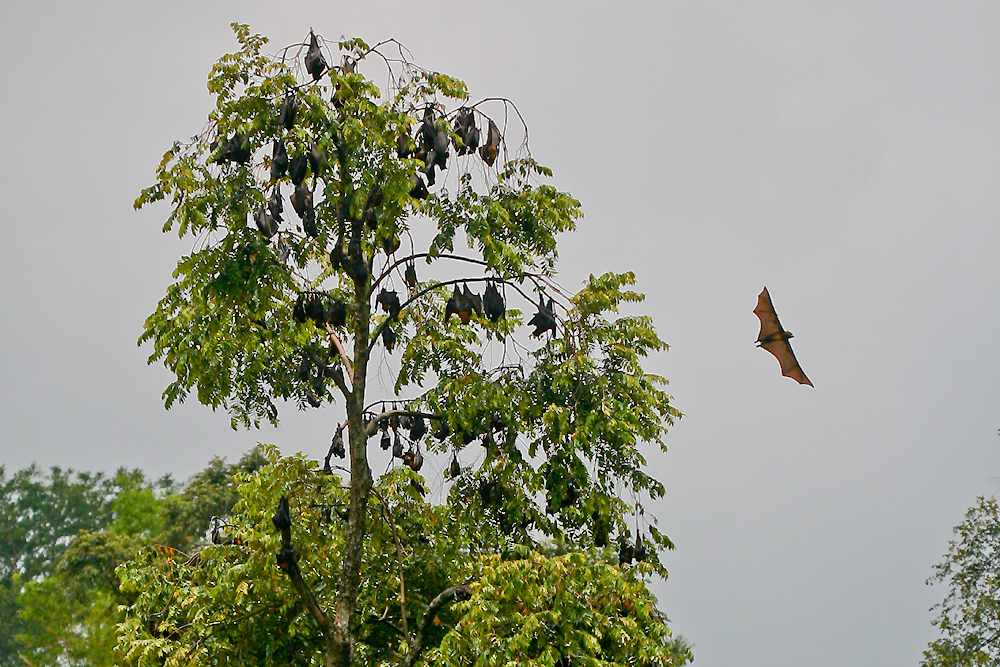 A Pteropus Vampyrus flying over a tree in the Philippines